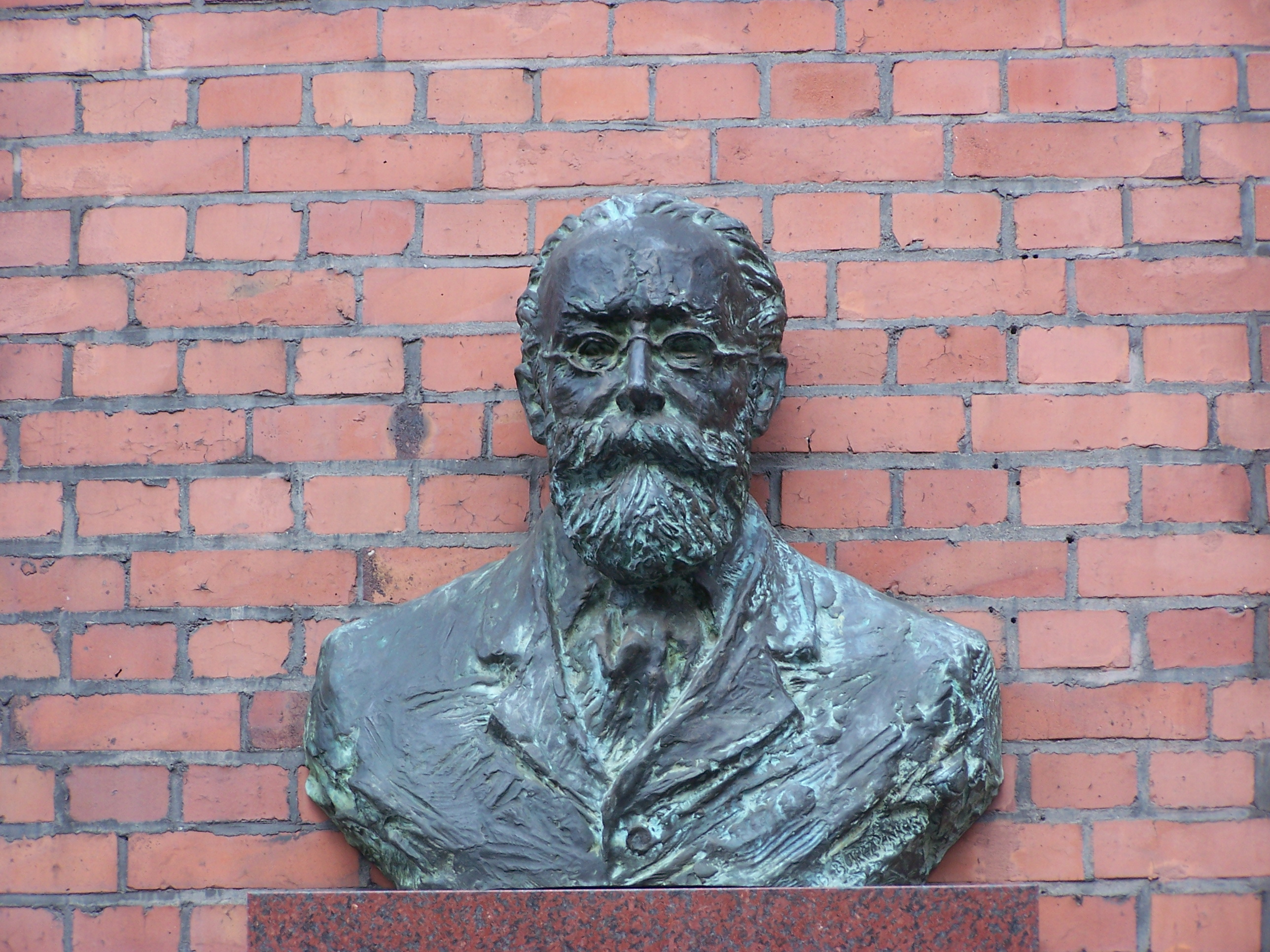 Bust of Richard Holtze – one of the founders of the city of Katowice – by sculptor Bogumił Burzyński